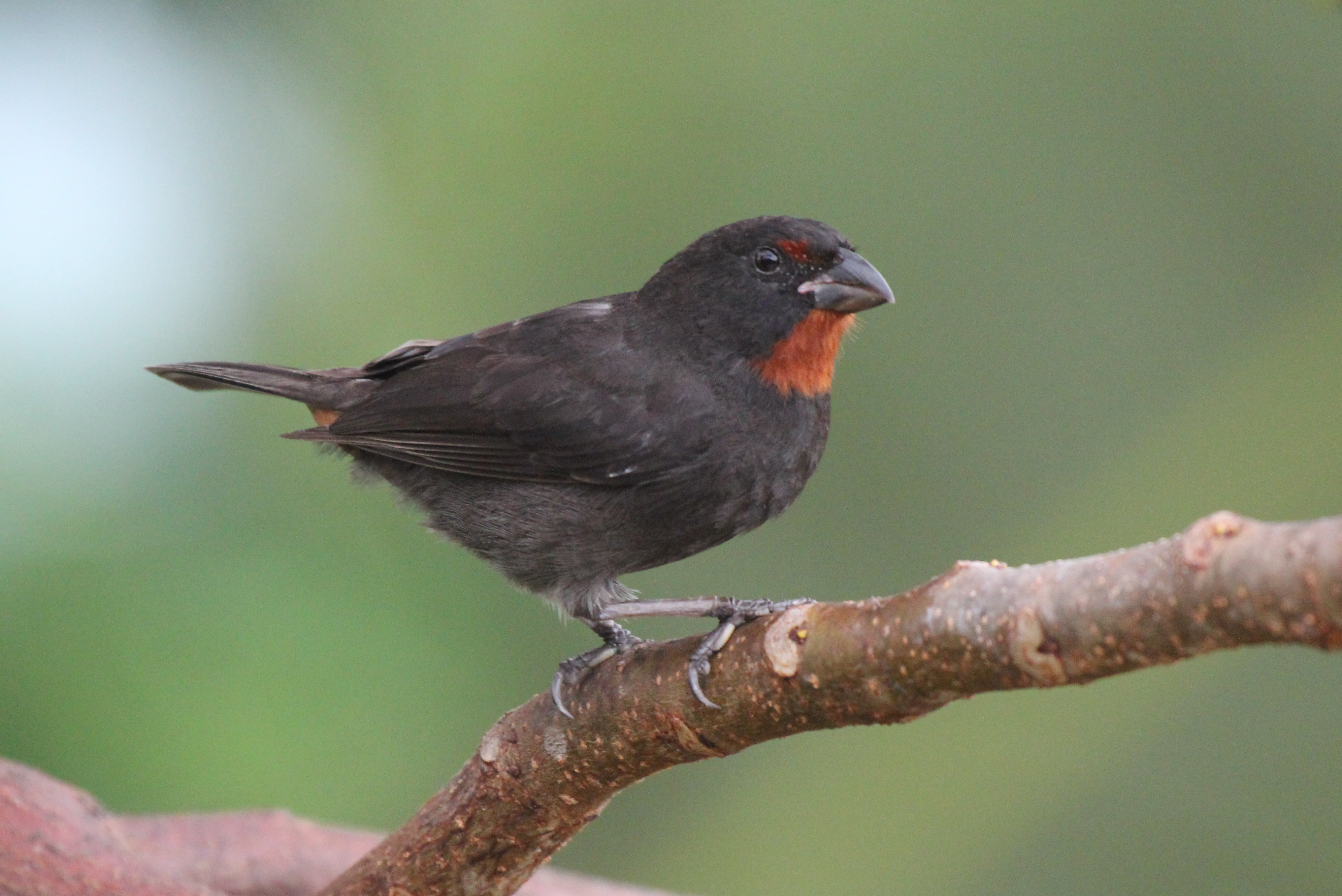 Loxigilla noctis; St. John, U.S. Virgin Islands